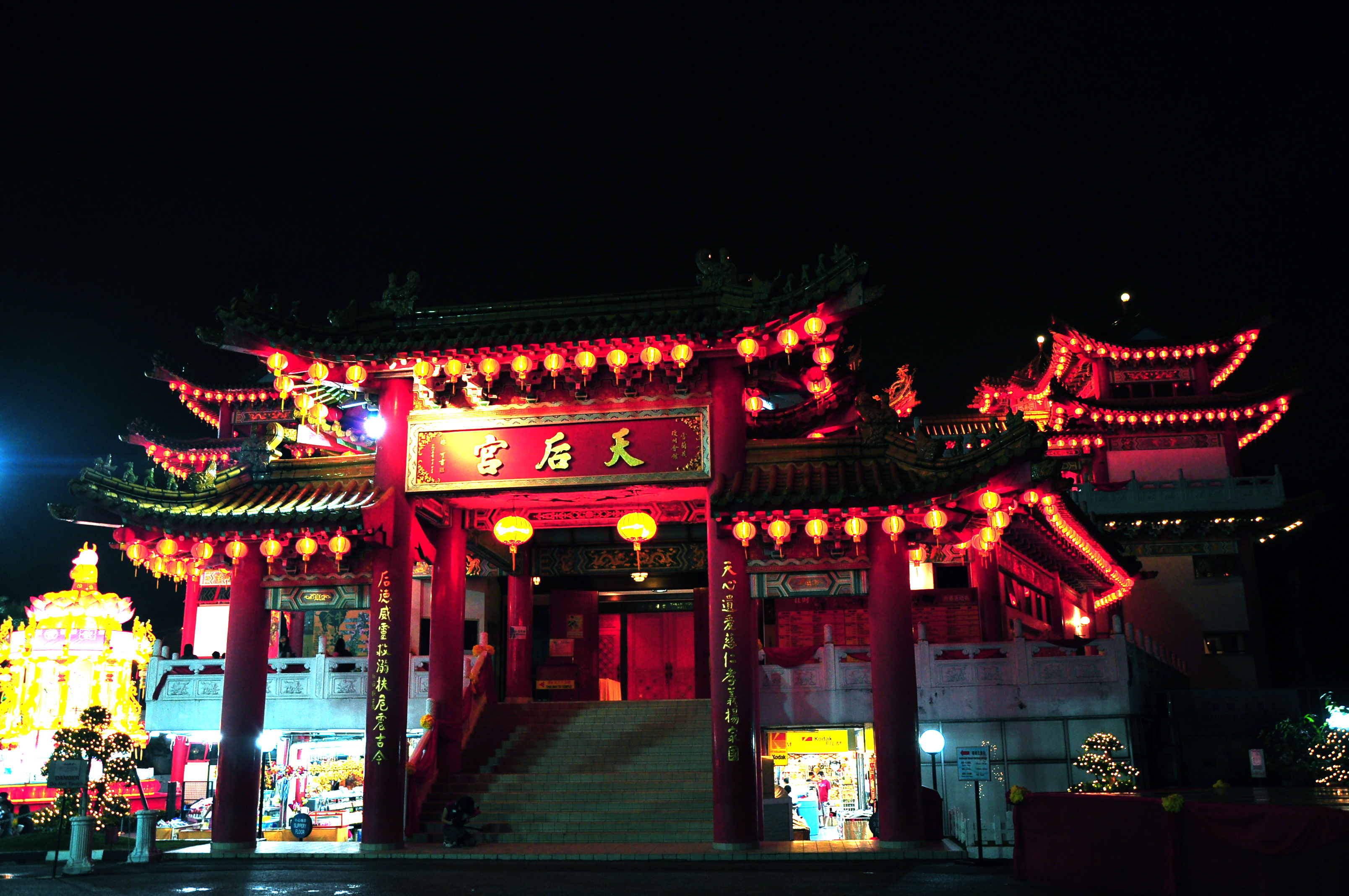 Thean Hou Temple, Kuala Lumpur